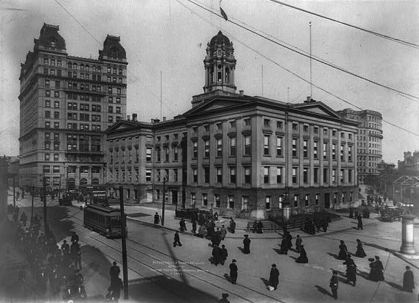 Borough Hall (209 Joralemon Street), and subway entrance, Brooklyn, Kings County, New York.